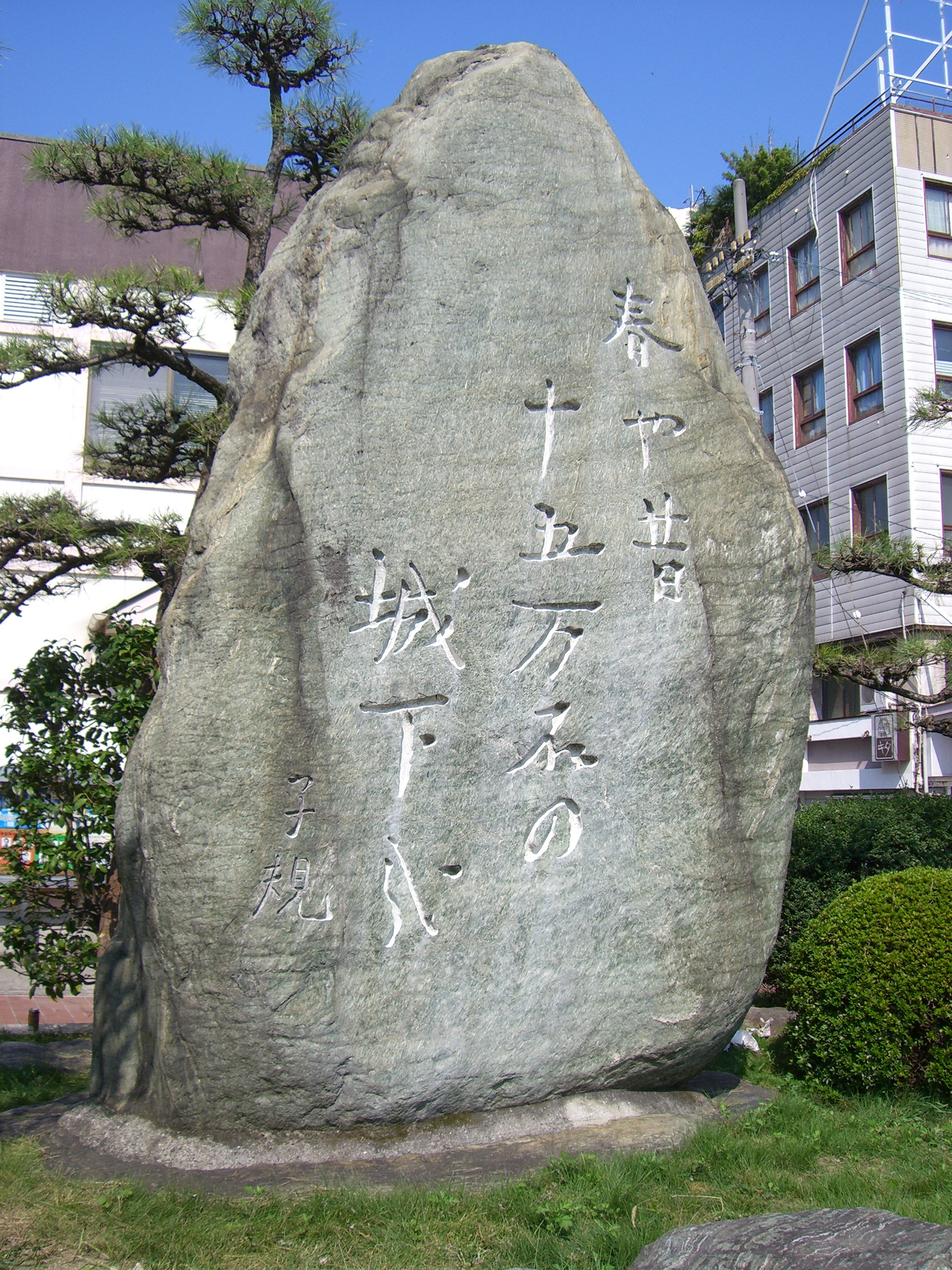 The meaning of this Haiku Monument , " “Come spring as of old when such revenues of rice Braced this Castle Town!”" is. This stone monument is recognized as one of the symbols of Matsuyama-City, located North-West of the Matsuyama Station(Ehime,JAPAN).